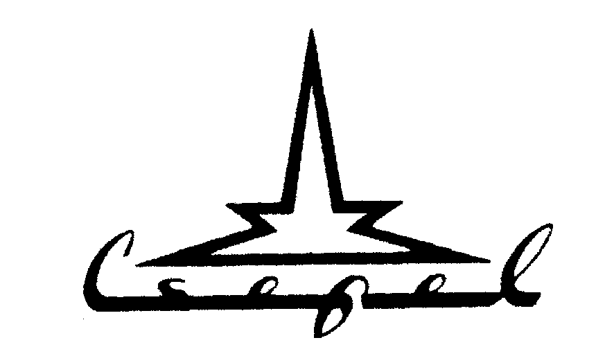 Csepel Auto Factory logo